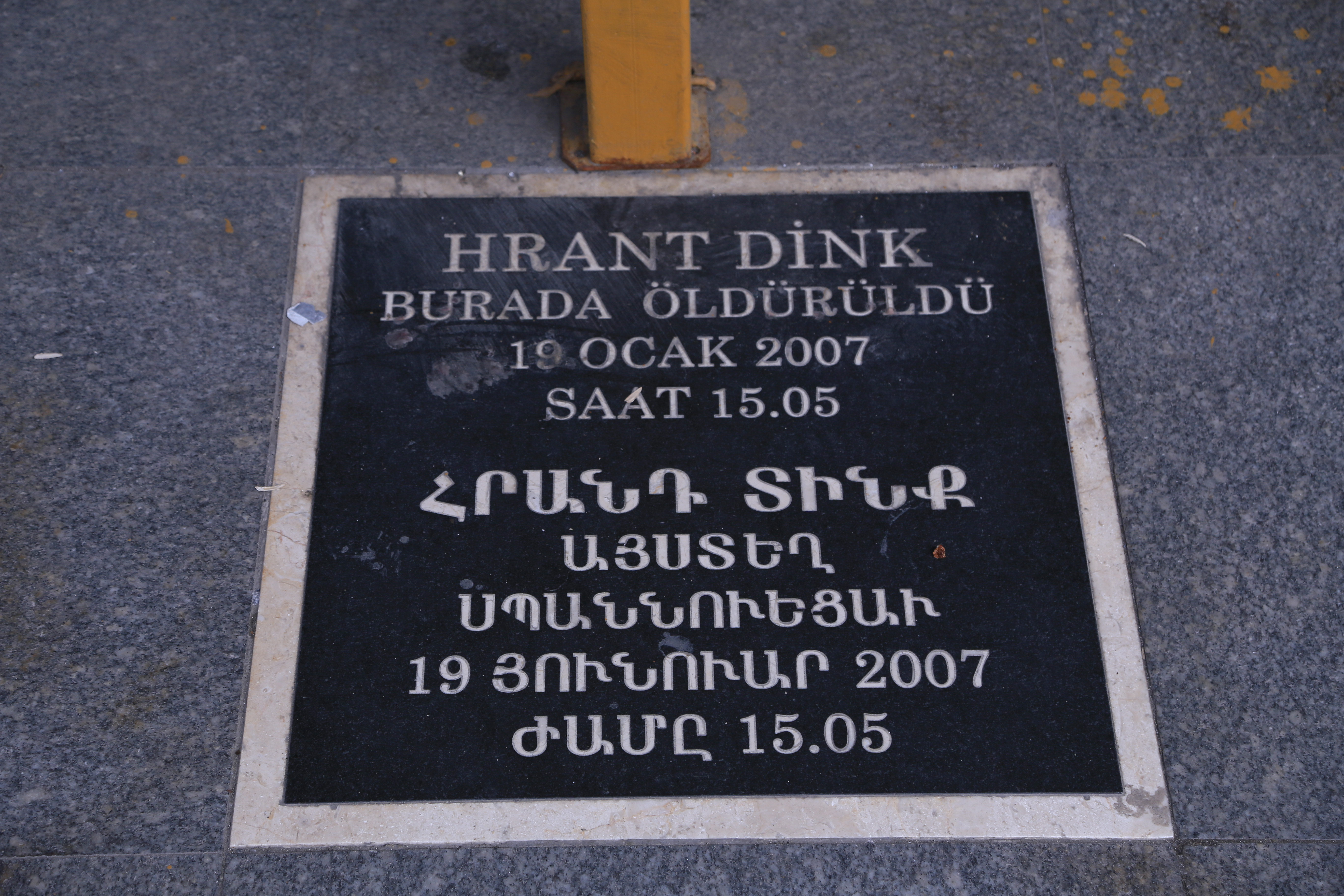 A memorial stone marking the location outside Agos newspaper's office in Istanbul where Turkish-Armenian journalist Hrant Dink was murdered in 2007